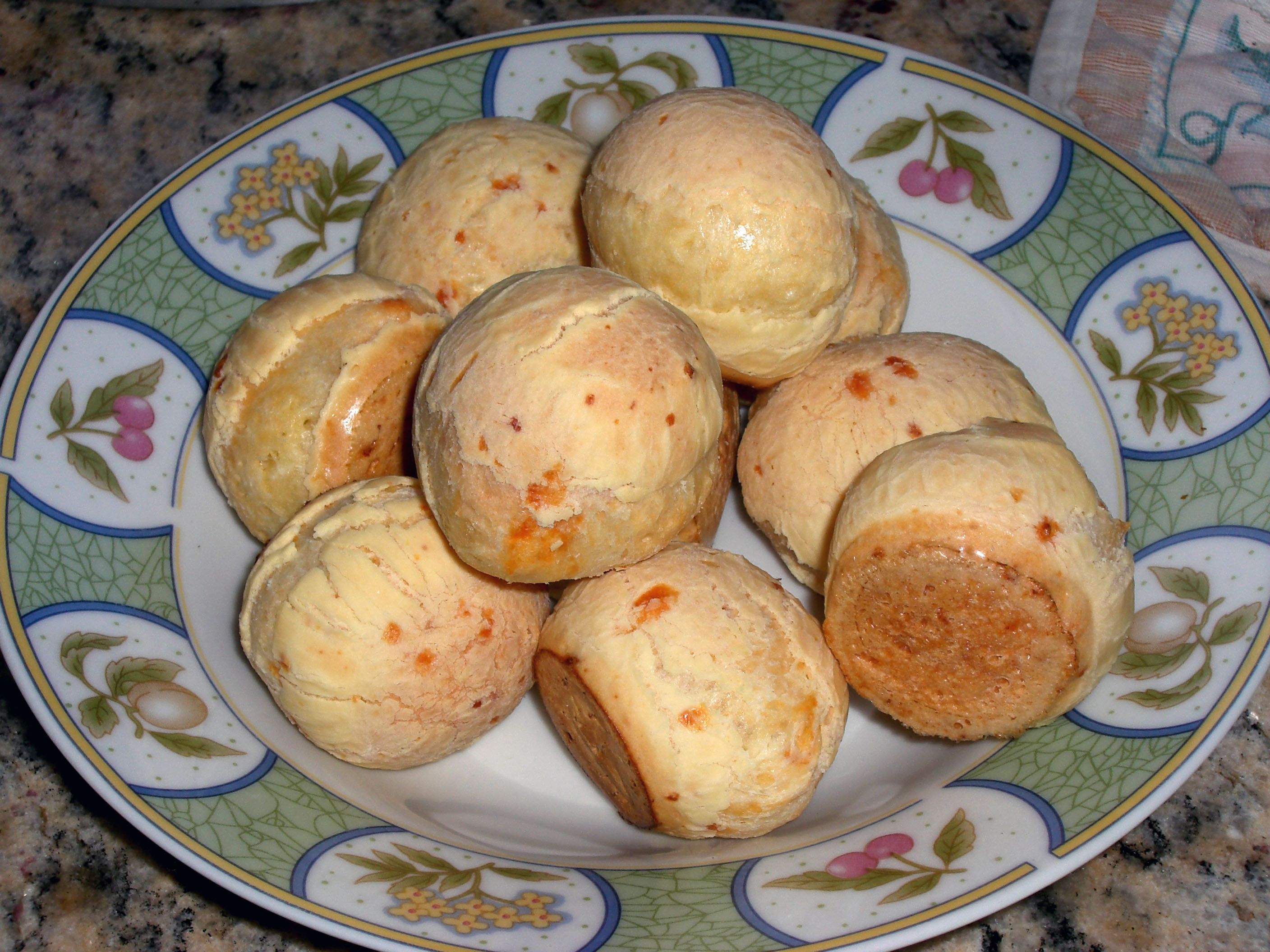 Cheese bun.